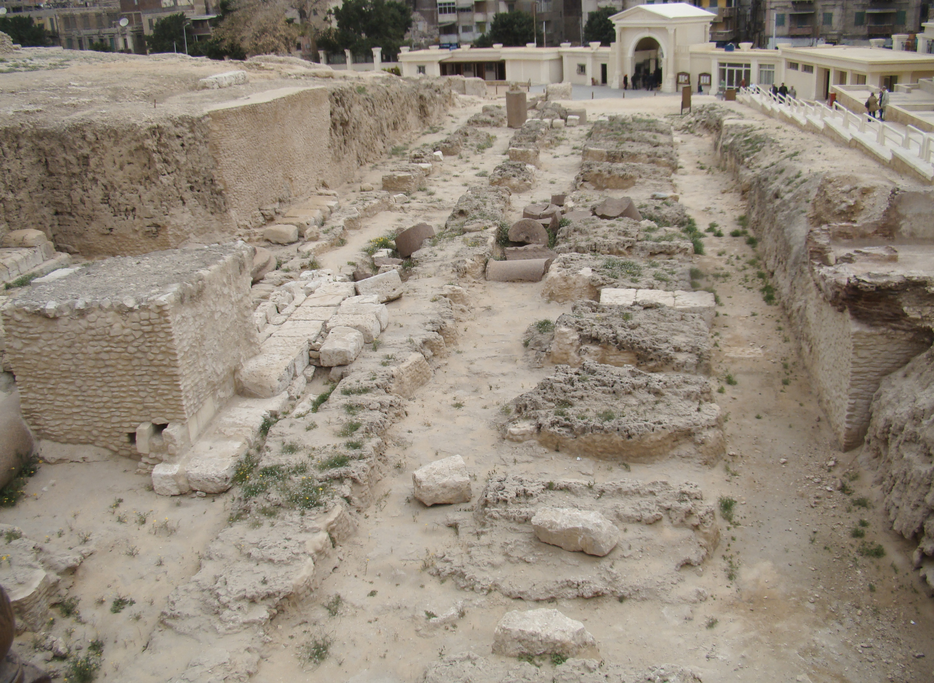 AWIB-ISAW: The Serapeum of Alexandria (III) The remains of the ancient site of the Temple complex of Sarapis at Alexandria. It once included the temple, a library, lecture rooms, and smaller shrines but after many reconstructions and conflict over the site it is mostly ground level ruins. by Iris Fernandez (2009) copyright: 2009 Iris Fernandez (used with permission) photographed place: Alexandria [ Published by the Institute for the Study of the Ancient World as part of the Ancient World Image Bank (AWIB). Further information: [